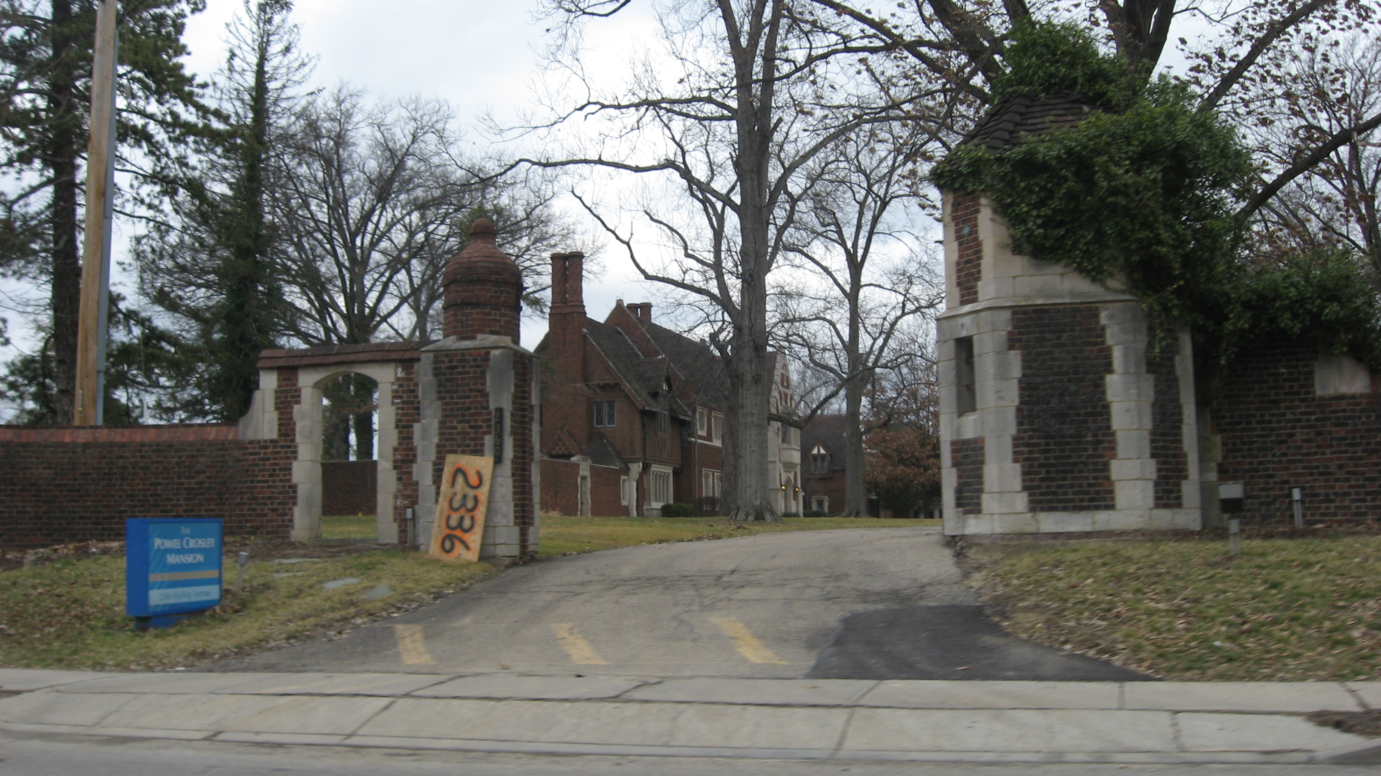 Looking along the driveway of Pinecroft, the Powel Crosley Mansion. Located at 2336 Kipling Avenue in the Mount Airy neighborhood of Cincinnati, Ohio, United States. Built in 1928, it is listed on the National Register of Historic Places.